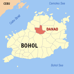 Map of Bohol showing the location of Danao